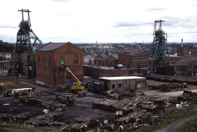 Golborne Colliery Closed 1989. Grid reference from Owen Ashmore (1982), The Industrial Archaeology of North West England. Visit was to see a compressed air winch in the stock yard and we literally helped ourselves. I'm not sure we were even challenged. Of course some of the current generation of urban explorers make themselves inconspicuous with hi-vis and hard hats.